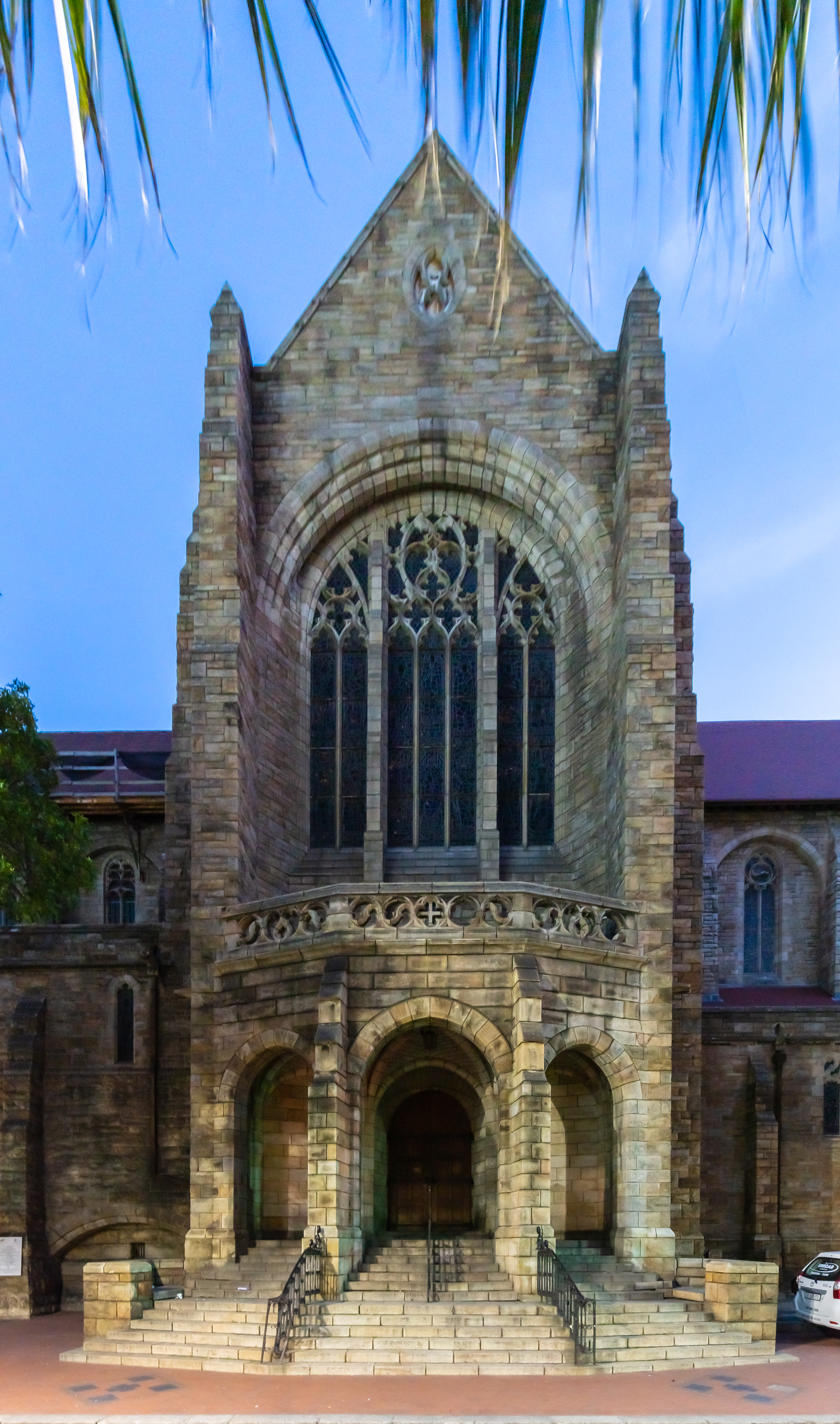 St George's Cathedral Cape Town, South Africa